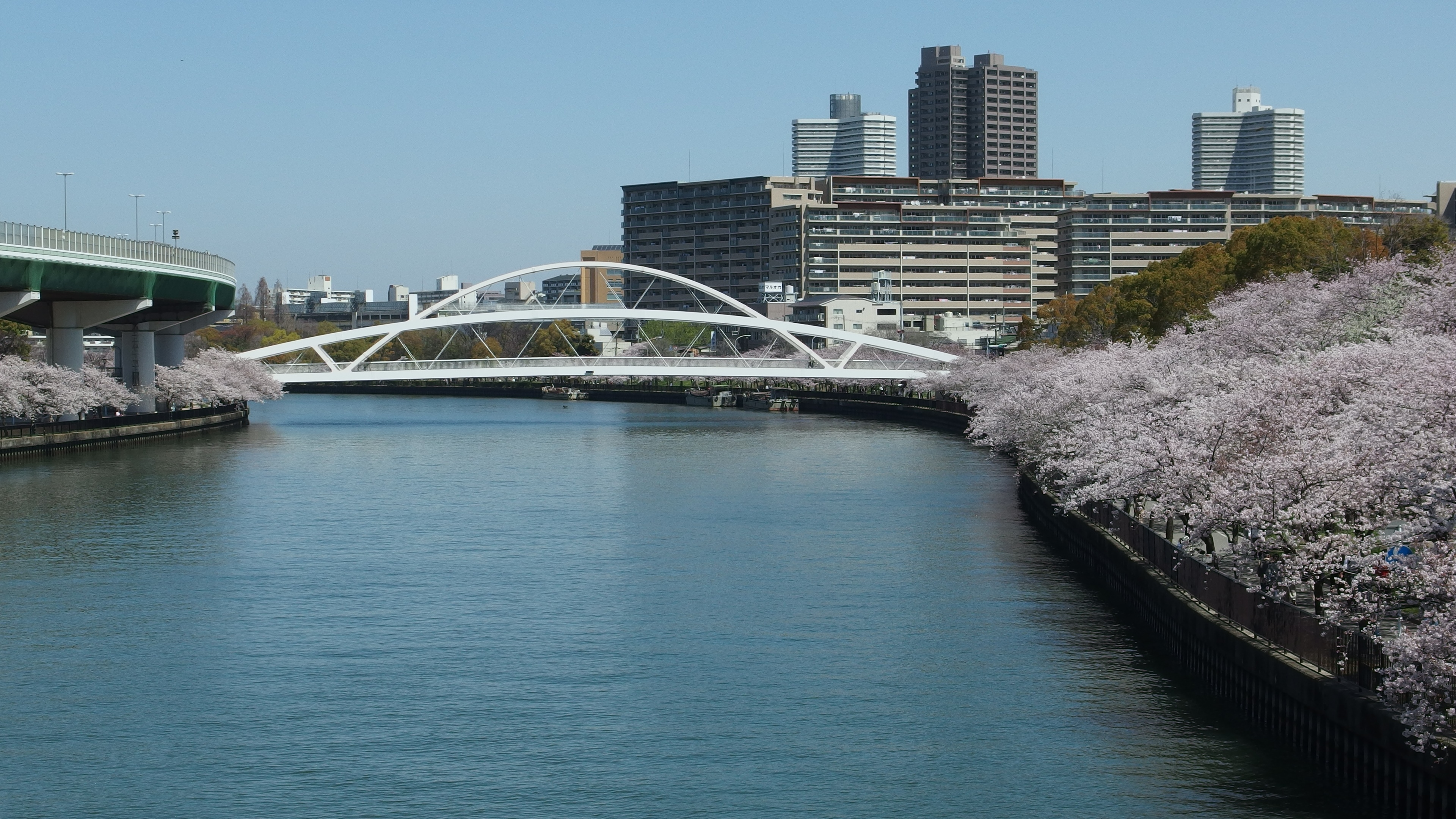 Hishou Bridge in Osaka, Osaka Prefecture, Japan